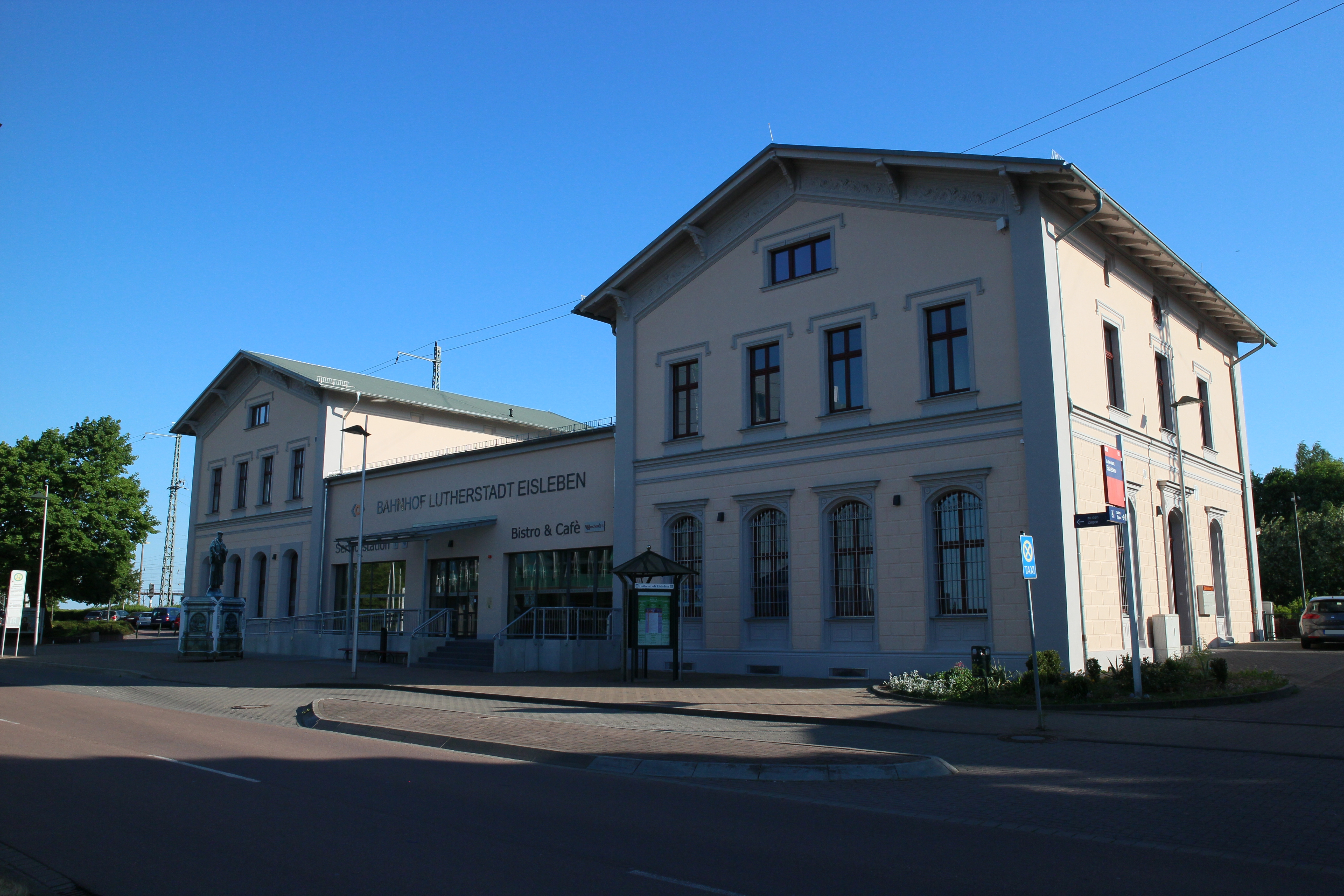 the new, restaurated train station in the german city of Lutherstadt Eisleben